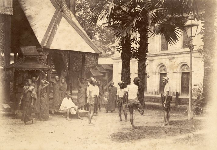 Possibly the first photograph of men playing chinlone. The photograph was taken around 1899 by the photographers H.W. Watts and F.A.E. Skeen who had a studio at 2 Sule Pagoda Road. It was part of a collection of Burma pictures presented to Lady Curzon, wife of the then Viceroy of India.